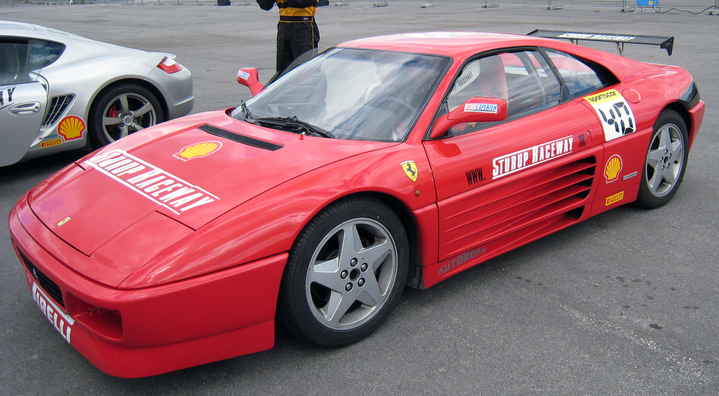 Ferrari 348 Challenge at the Sturup Raceway in Sweden